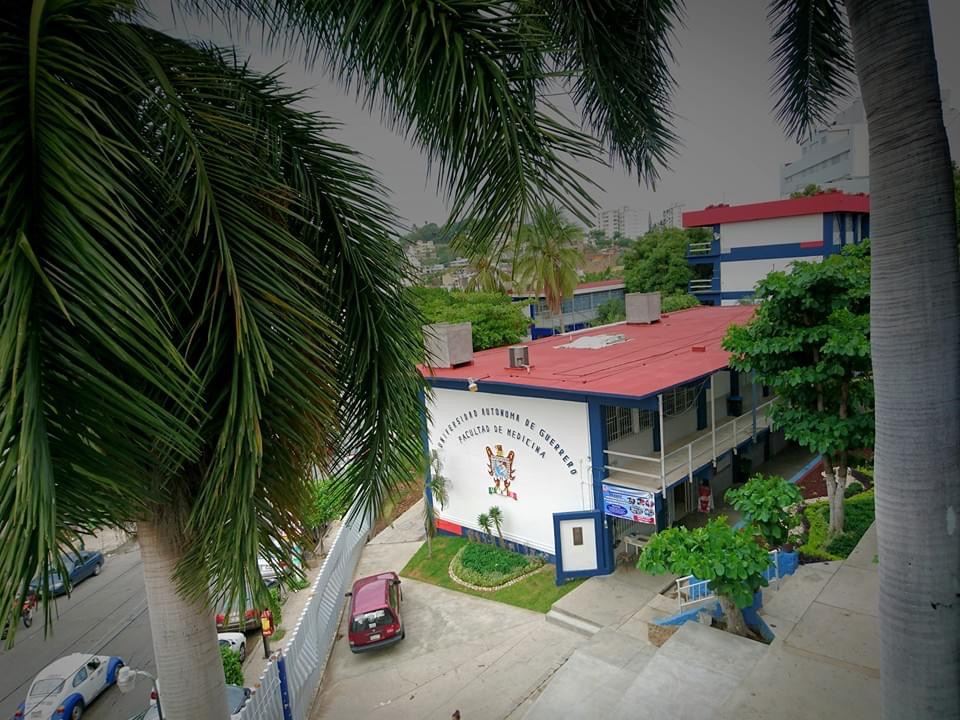 Entrada principal